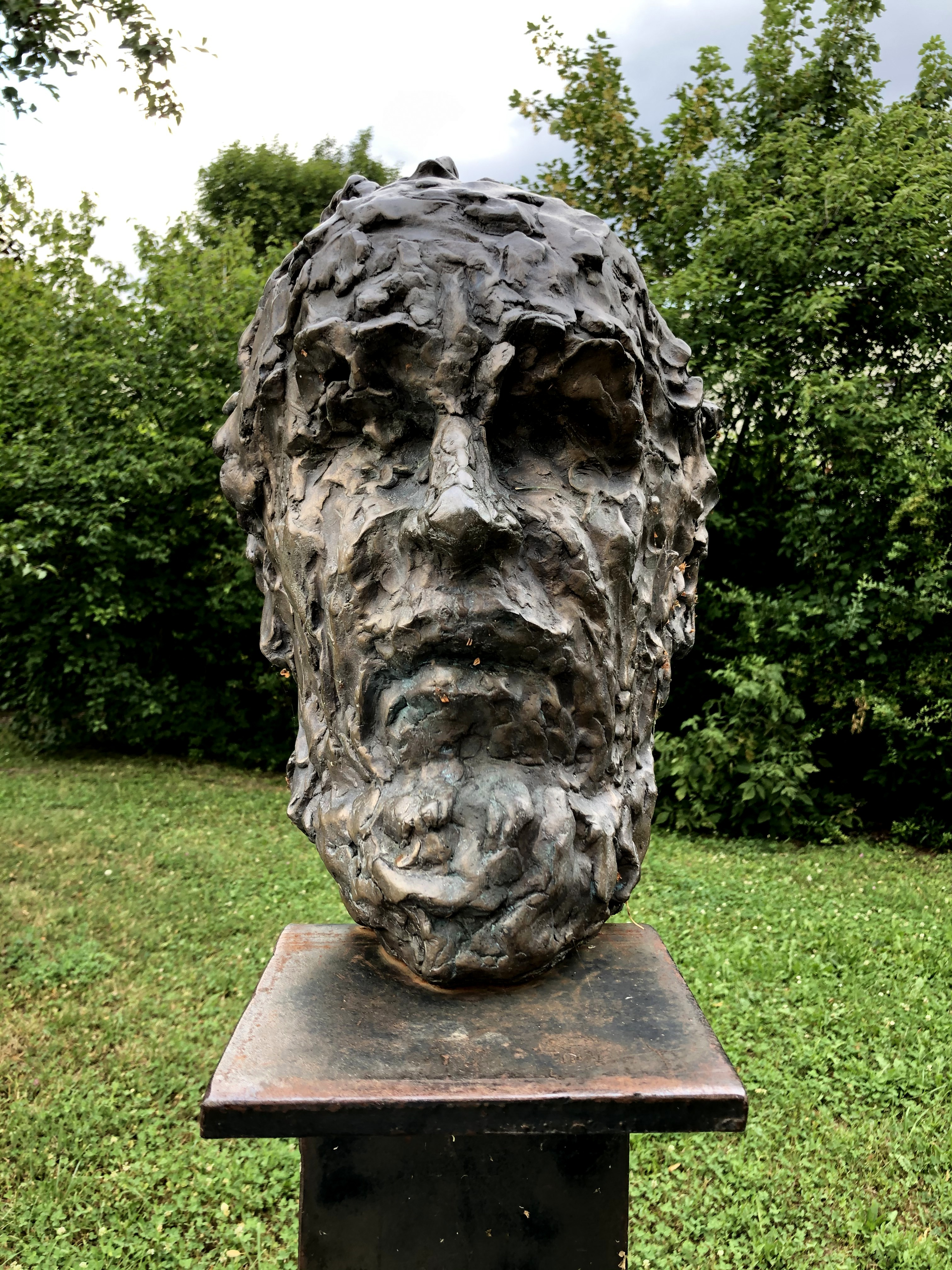 Self-portrait of Austrian sculptor Hubert Wilfan, part of sculpture Self-portrait of 1992, set up in Wilfanpark in Döbling district of Vienna